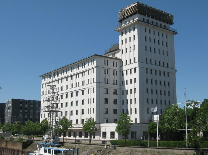 "Kontorhaus", an office building in Duisburg (Germany)